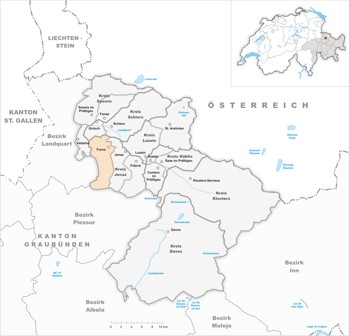 Municipality Furna